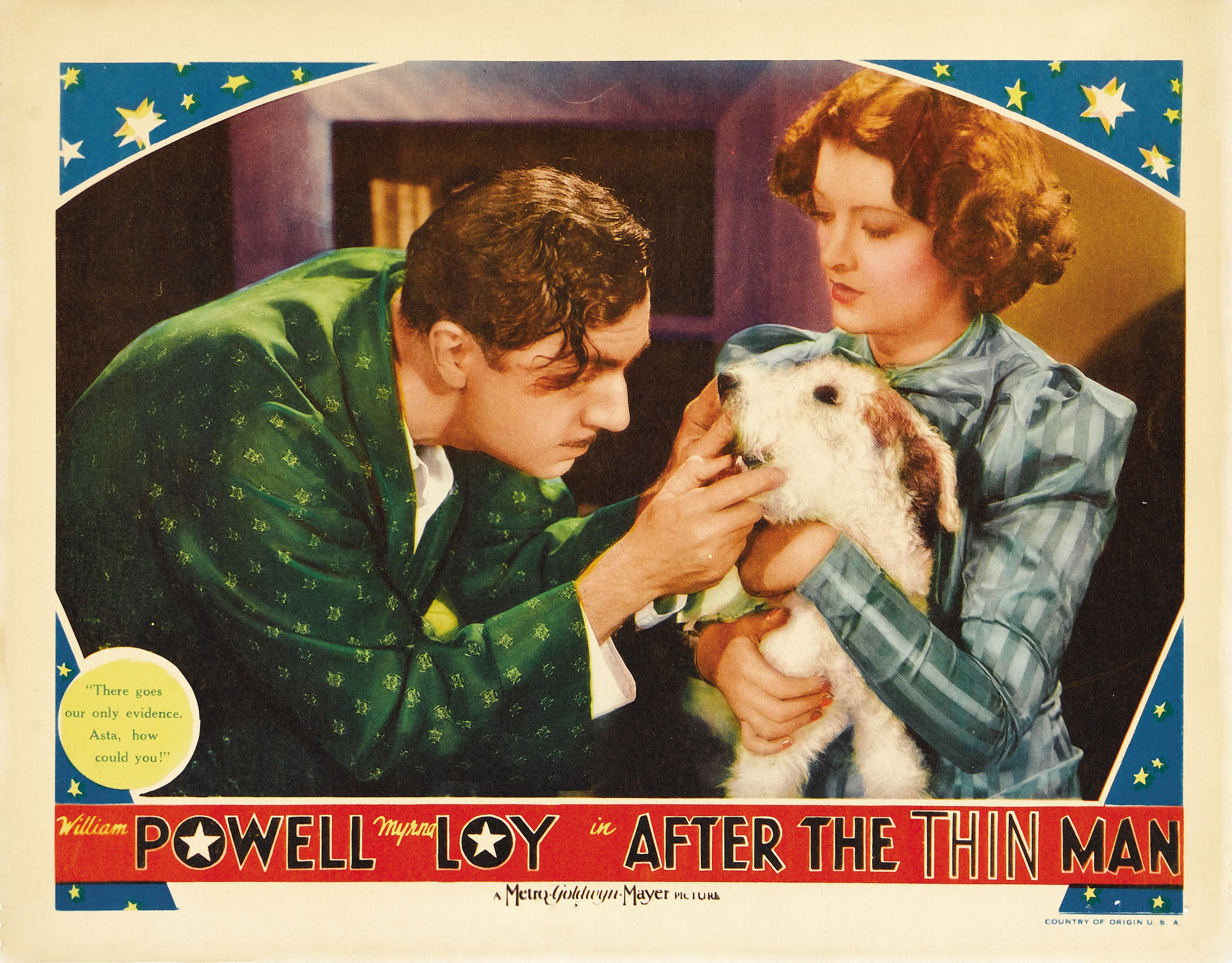 Lobby card for the 1936 film After the Thin Man